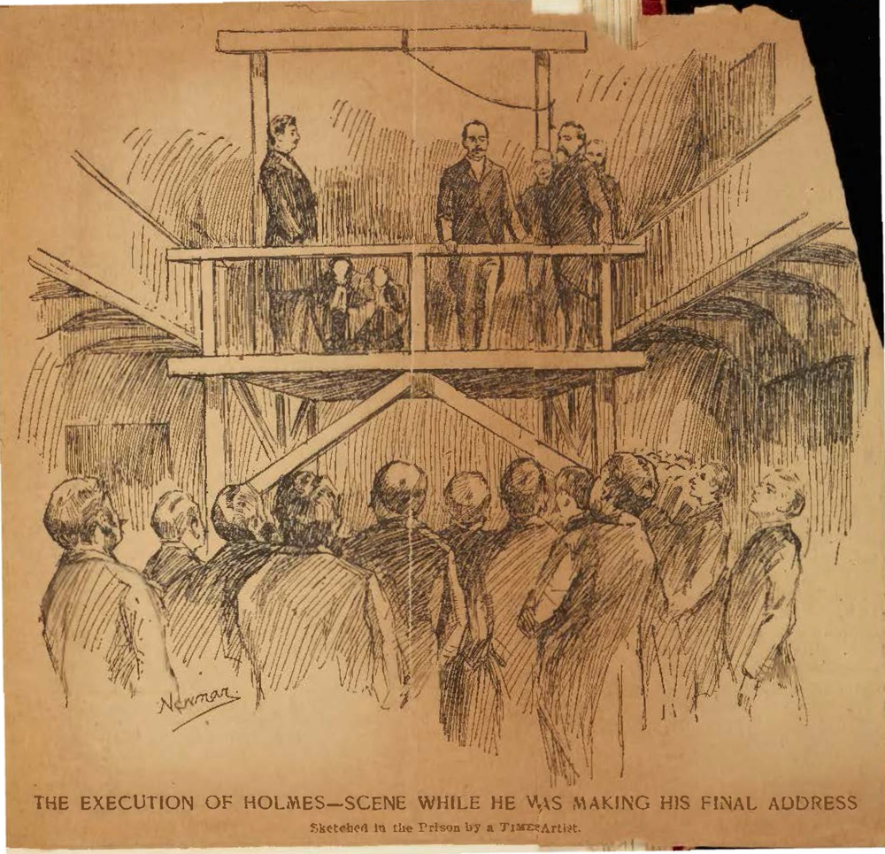 Moyamensing Prison, Philadelphia PA. The execution of H. H. Holmes, scene while he was making his final address. Sketched in the Prison by Newmar, Times artist. From Holmes' Own Story (1895) by Mudgett, Herman W.